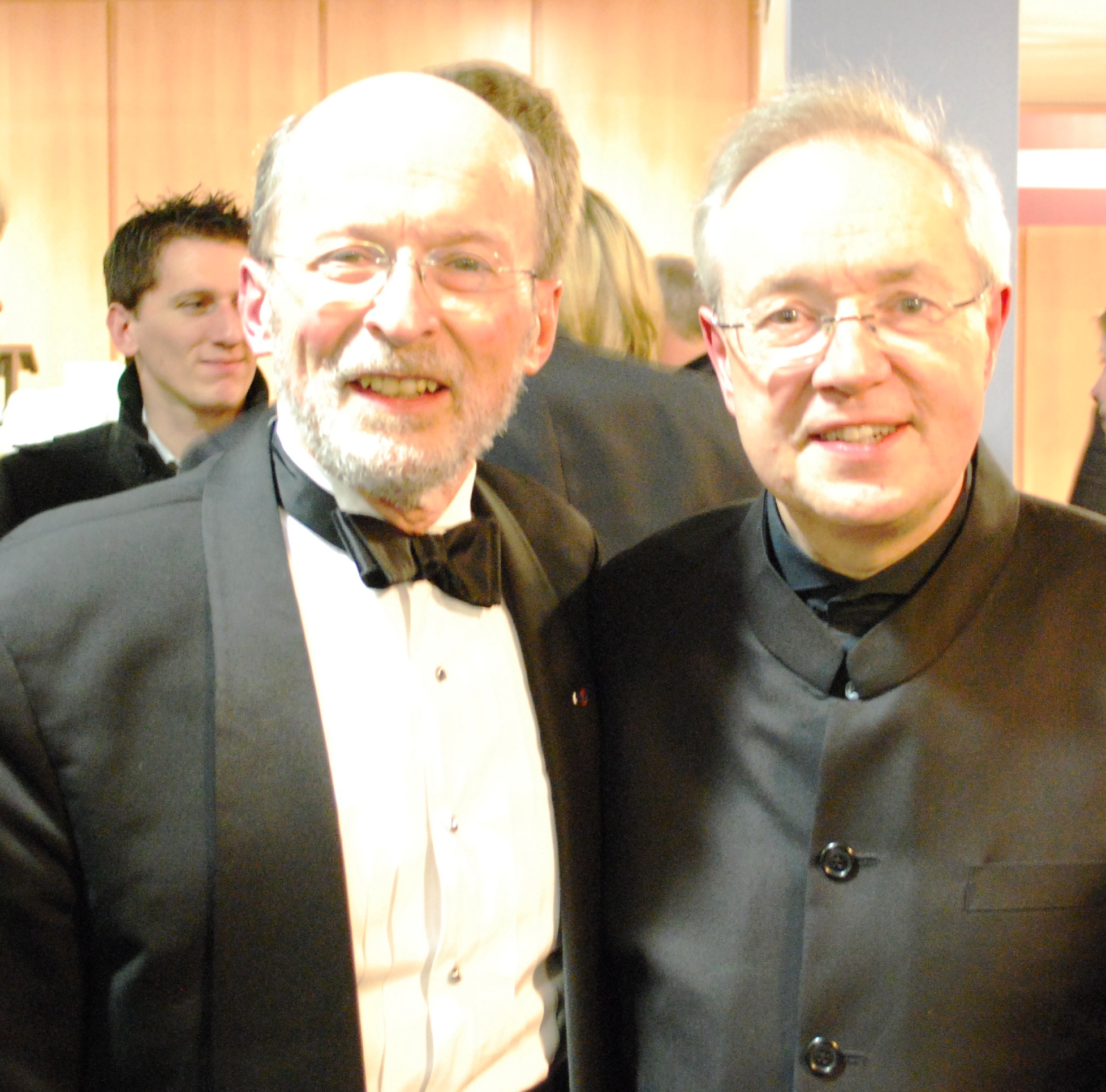 Philip Brunelle and Stephen Cleobury in 2009